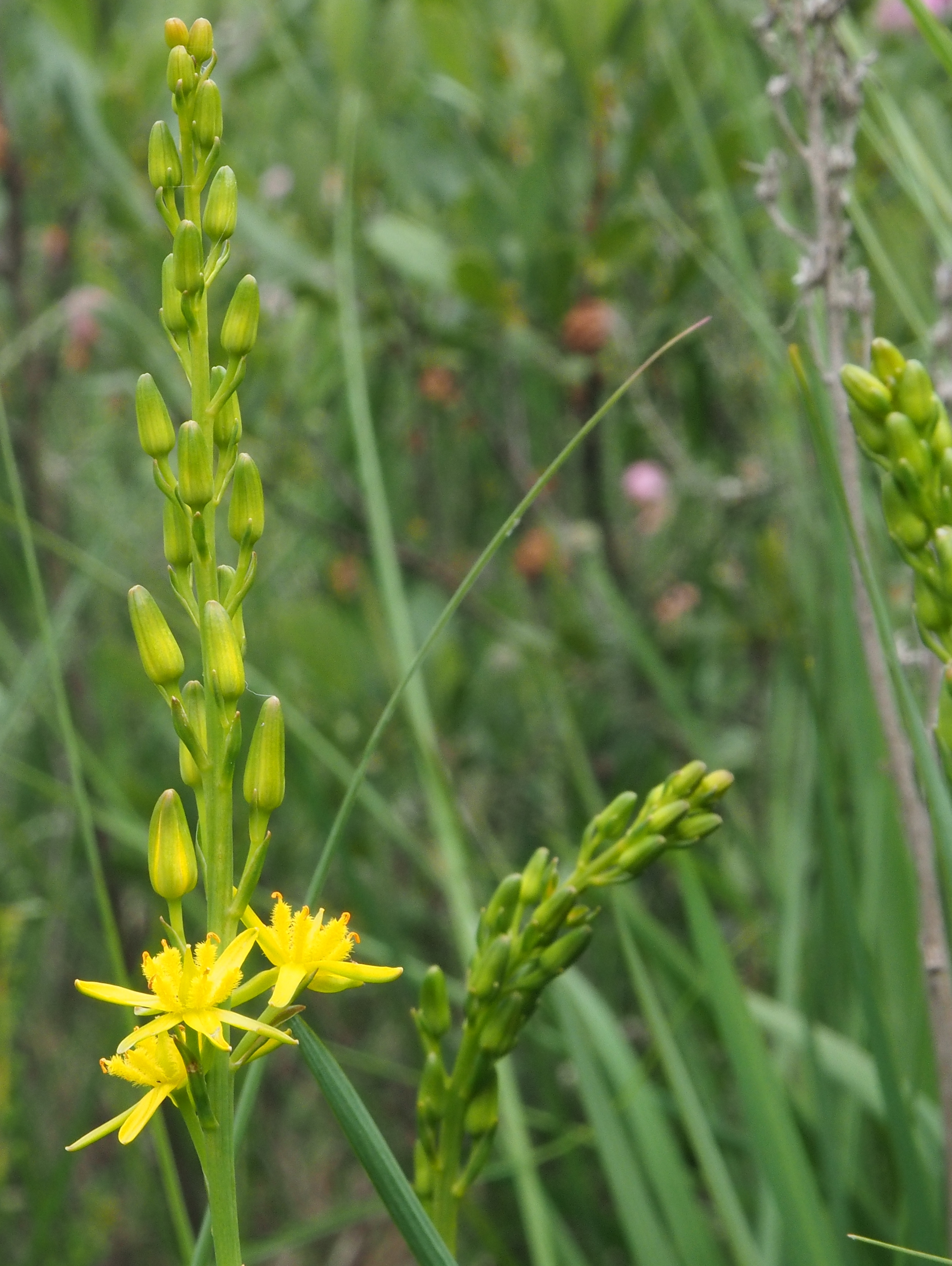 Narthecium ossifragum - Southern Heath Nature Park